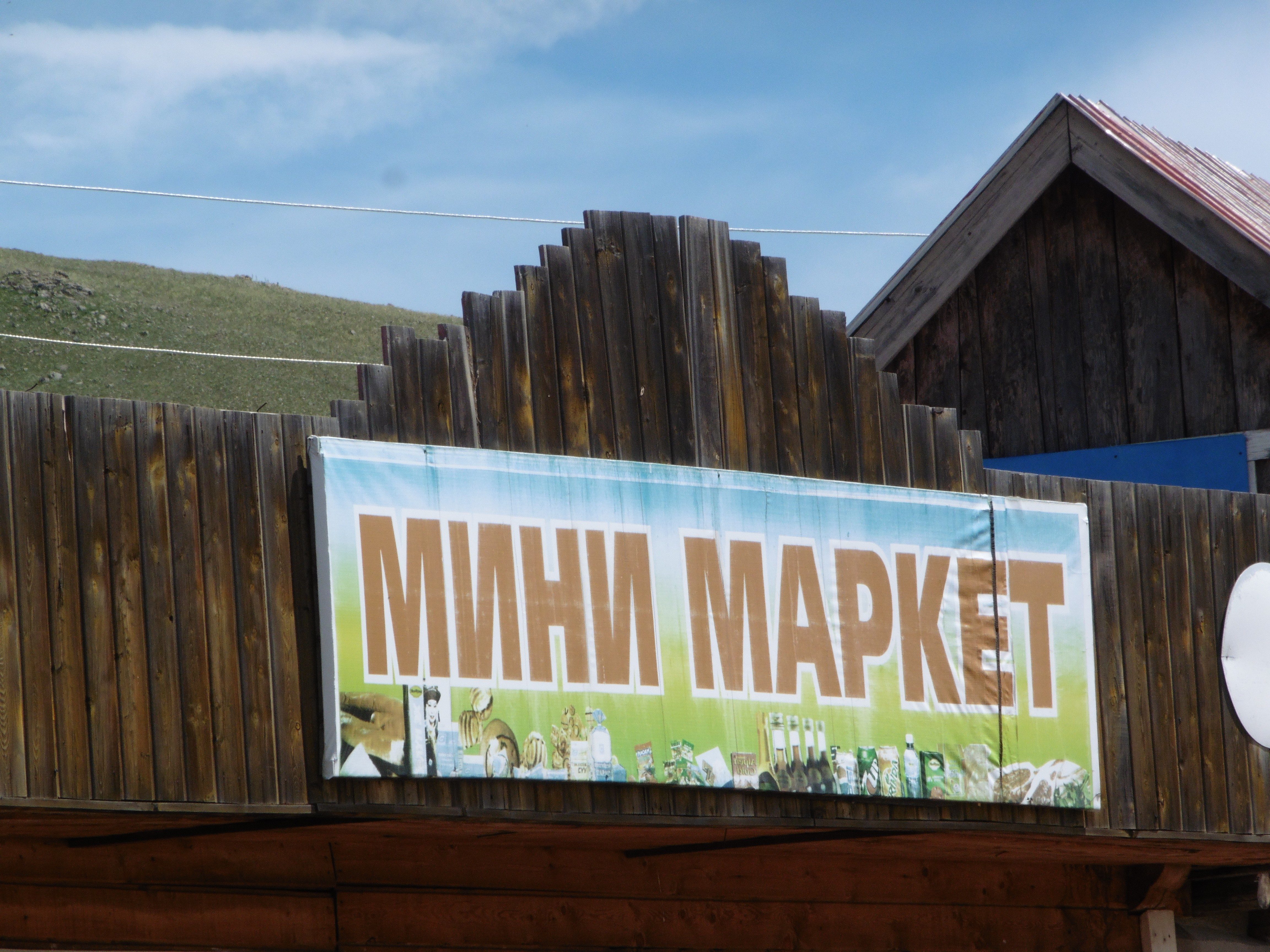 Mini Market on Longitude 99-48-37.4 (East)